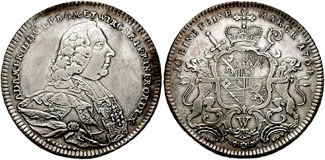 German States. Adam Friedrich von Seinsheim, prince-bishop of Würzburg (1755-1779) and of Bamberg (1757-1779). AR 1 Konventionsthaler (42mm, 27.95 gm). Dated 1764. Bare-headed and mantled bust right Crowned ducal coat-of-arms over sword and crozier. Davenport 2896; KM 53a.2.